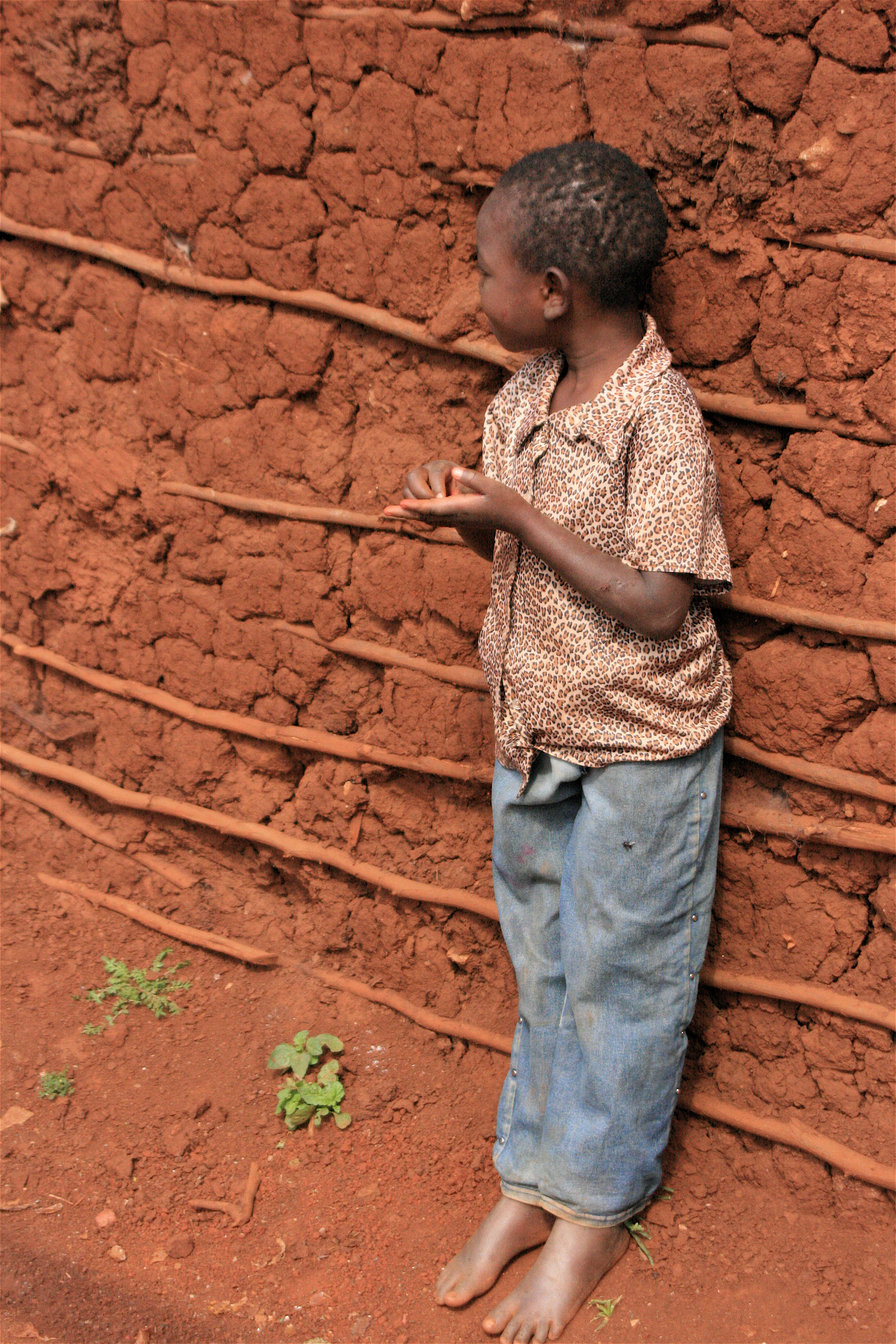 Barefoot child in Kibera.